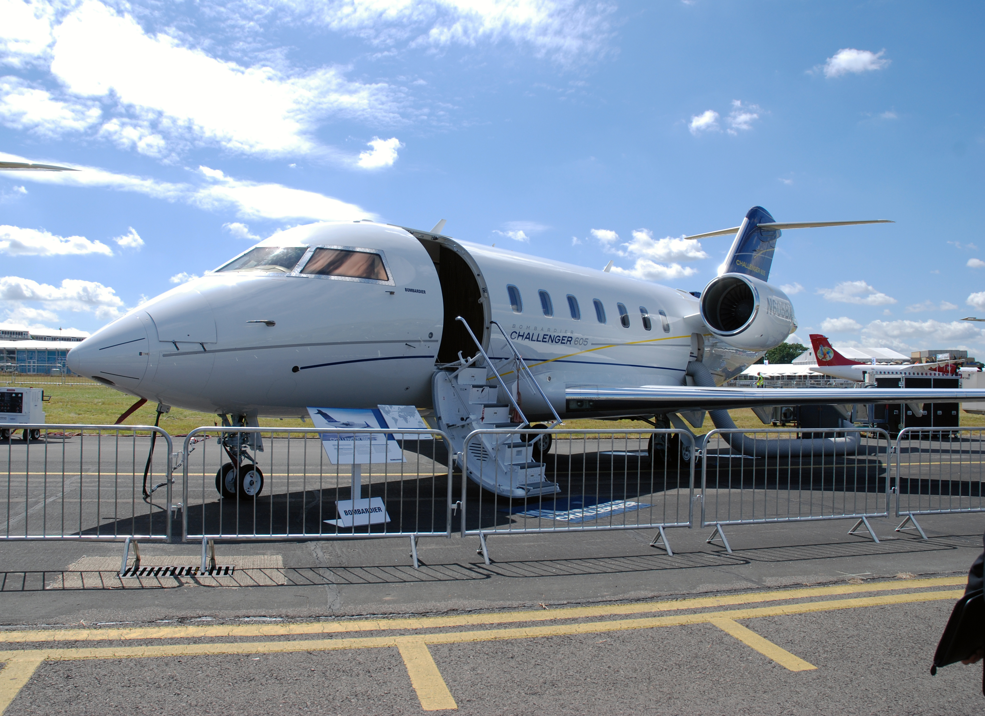 Farnborough 2008